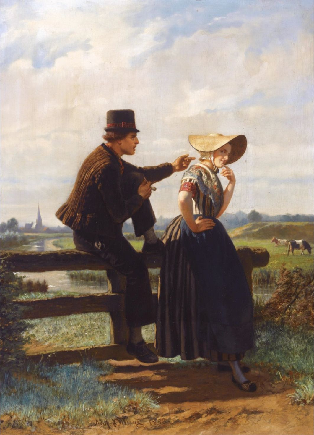 The flirtation 73 x 53.5 cm. signed and dated 1858 l.c. oil on panel